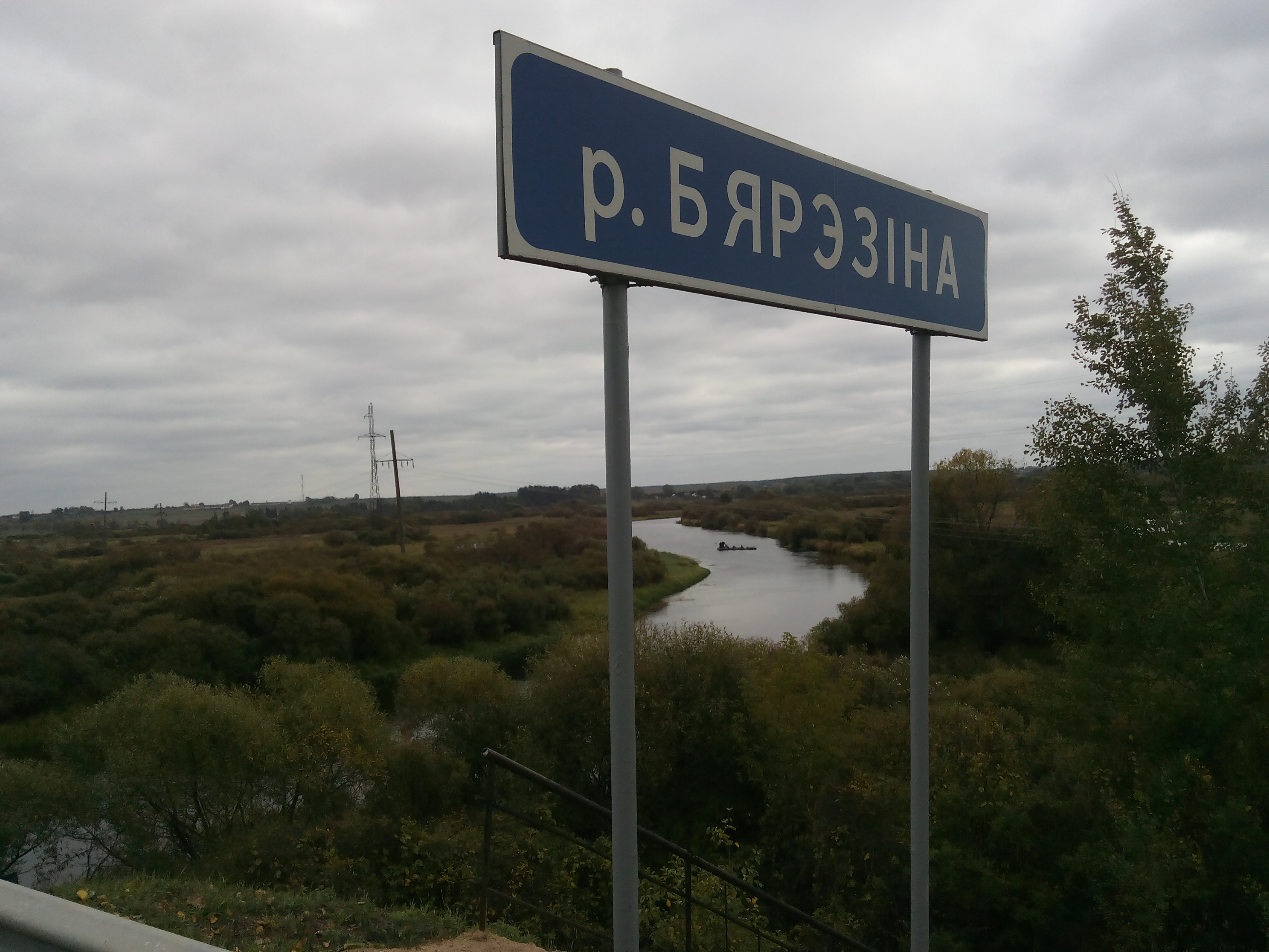 From Viesiolova bridge